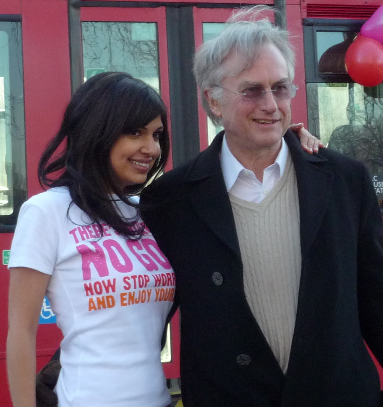 Atheist Bus Campaign creator Ariane Sherine and Richard Dawkins at its launch in London.